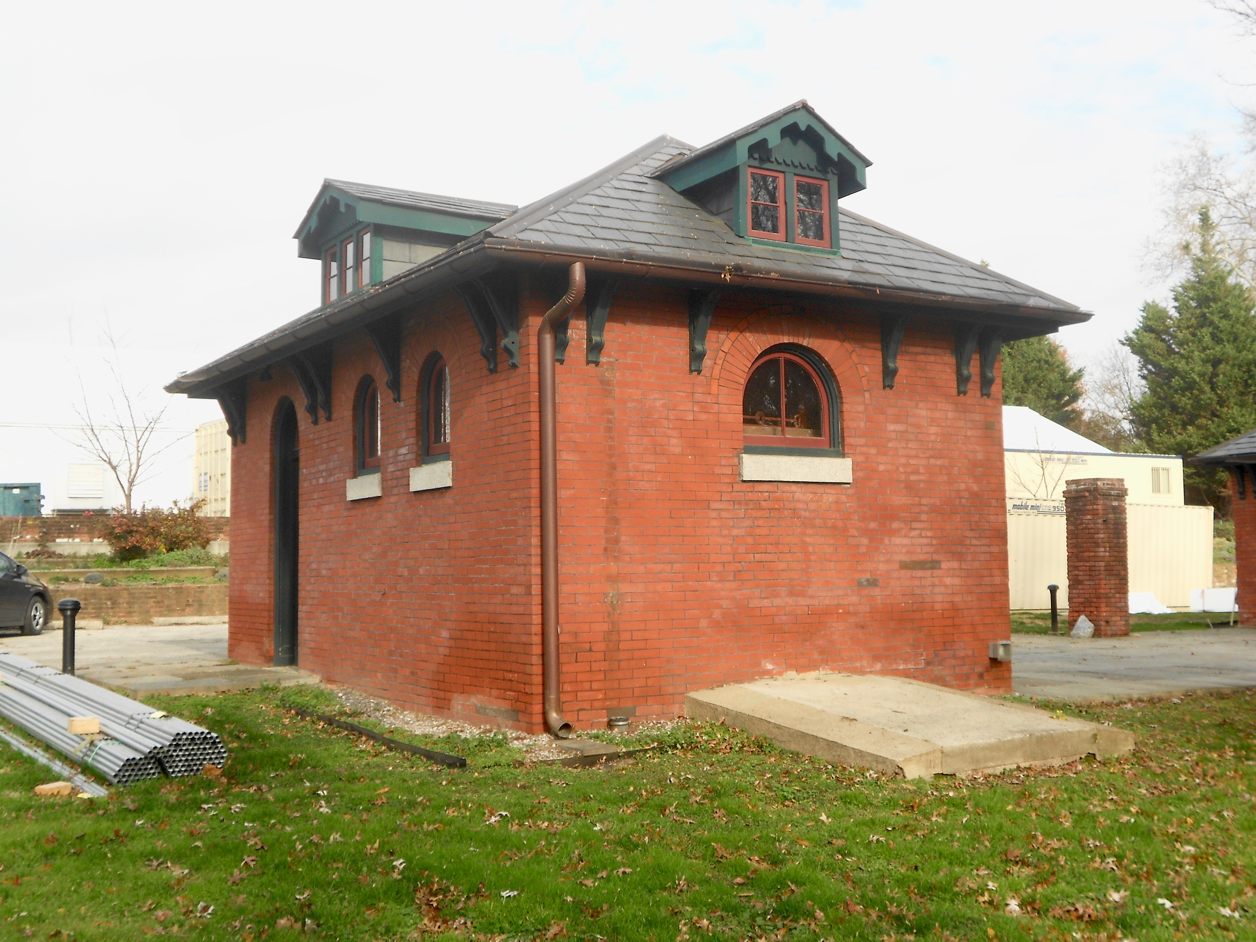 Western Centennial Comfort Station, built in 1876 for Philadelphia's Centennial Exhibition (World's Fair). Located in West Fairmount Park just south of the Horticultural Center